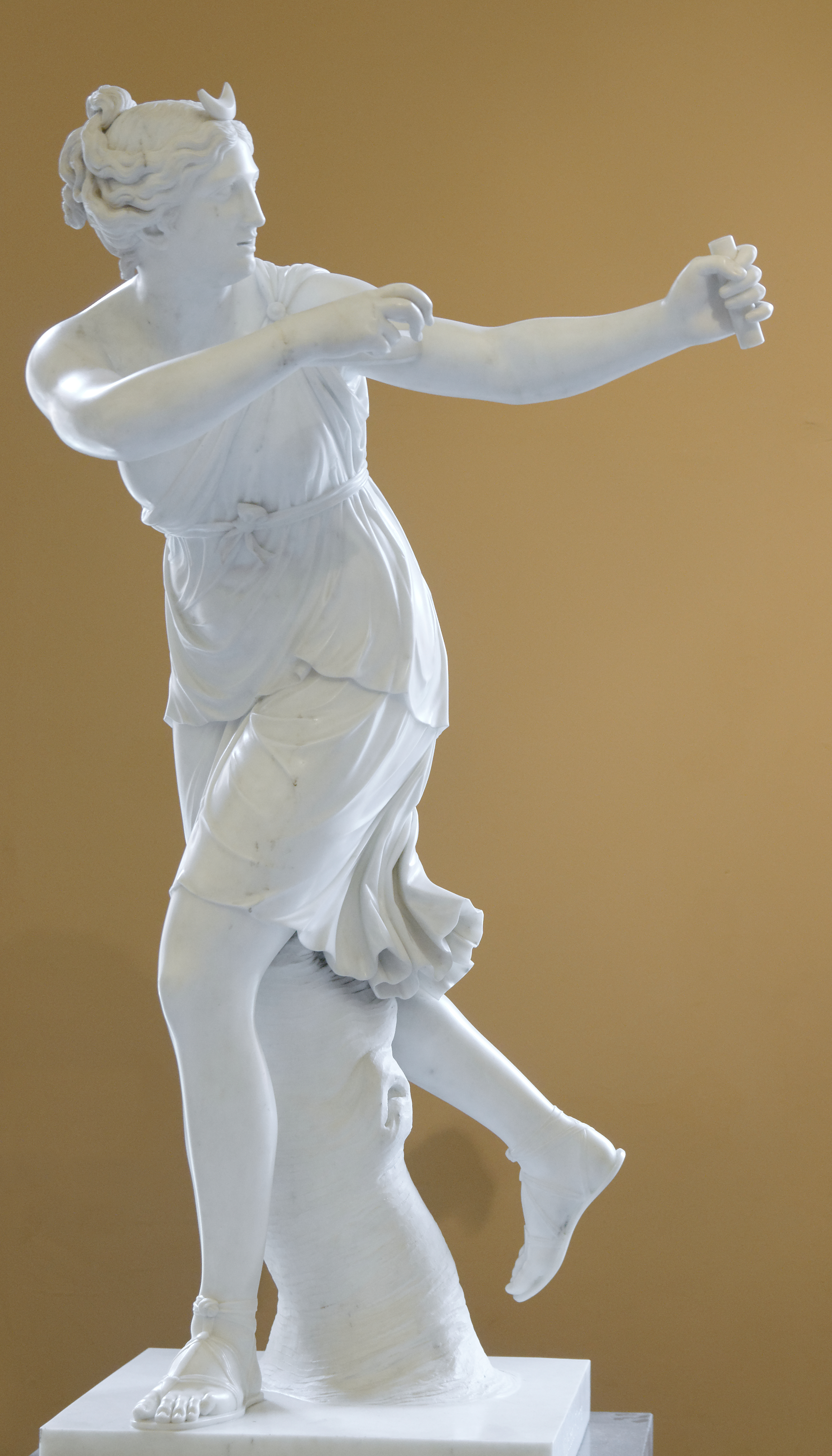 Diana the huntress.